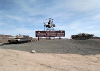 National Training Center and Fort Irwin